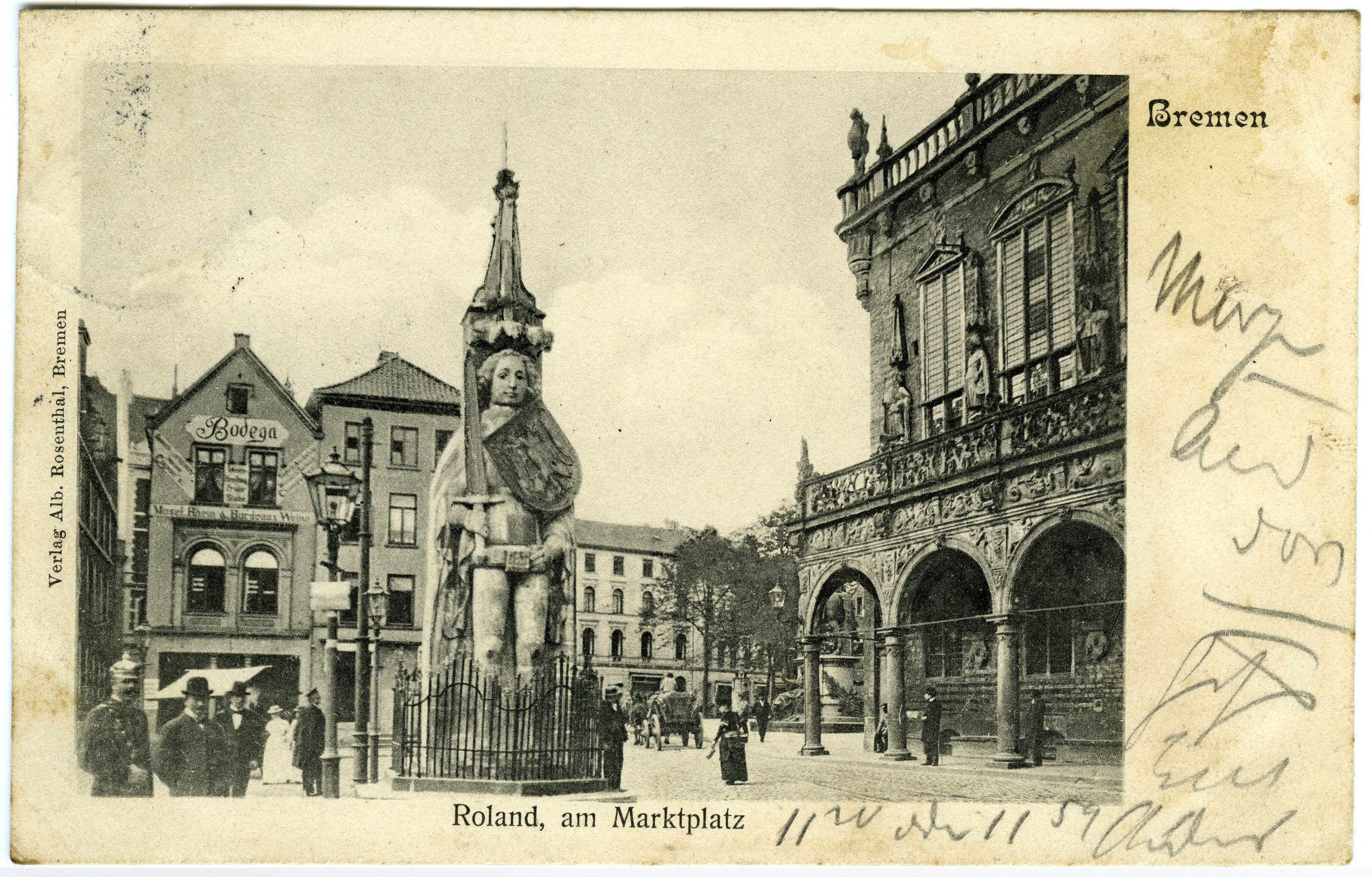 Postcard of Bremen from circa 1905, showing Roland and the marketplace. It is part of a locally printed series: 'Verlag Alb. Rosenthal, Bremen'. I have access to the original.